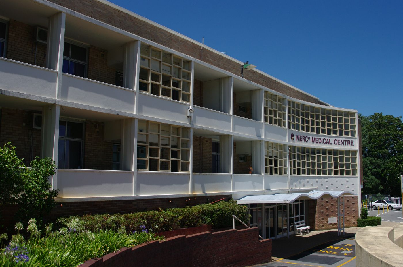 Mercy Hospital WA also known as St Annes Hospital